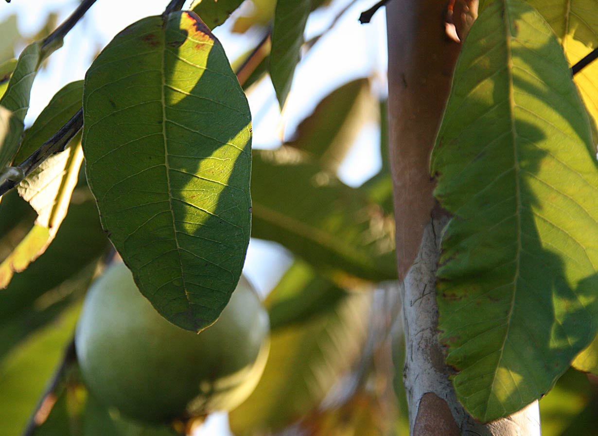 White guava leaf